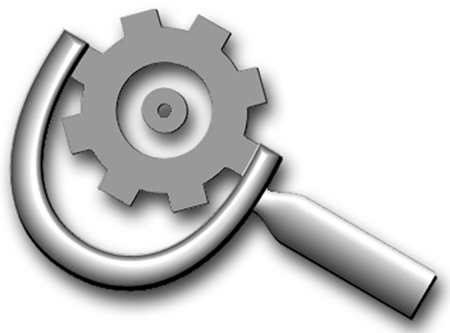 US Navy Machinery Repairman (MR). Micrometer and gear; handle of micrometer to the rear, open parts of jaws holding gear. The device is worn with the handle parallel to the upper edge of the left arm of the chevron.